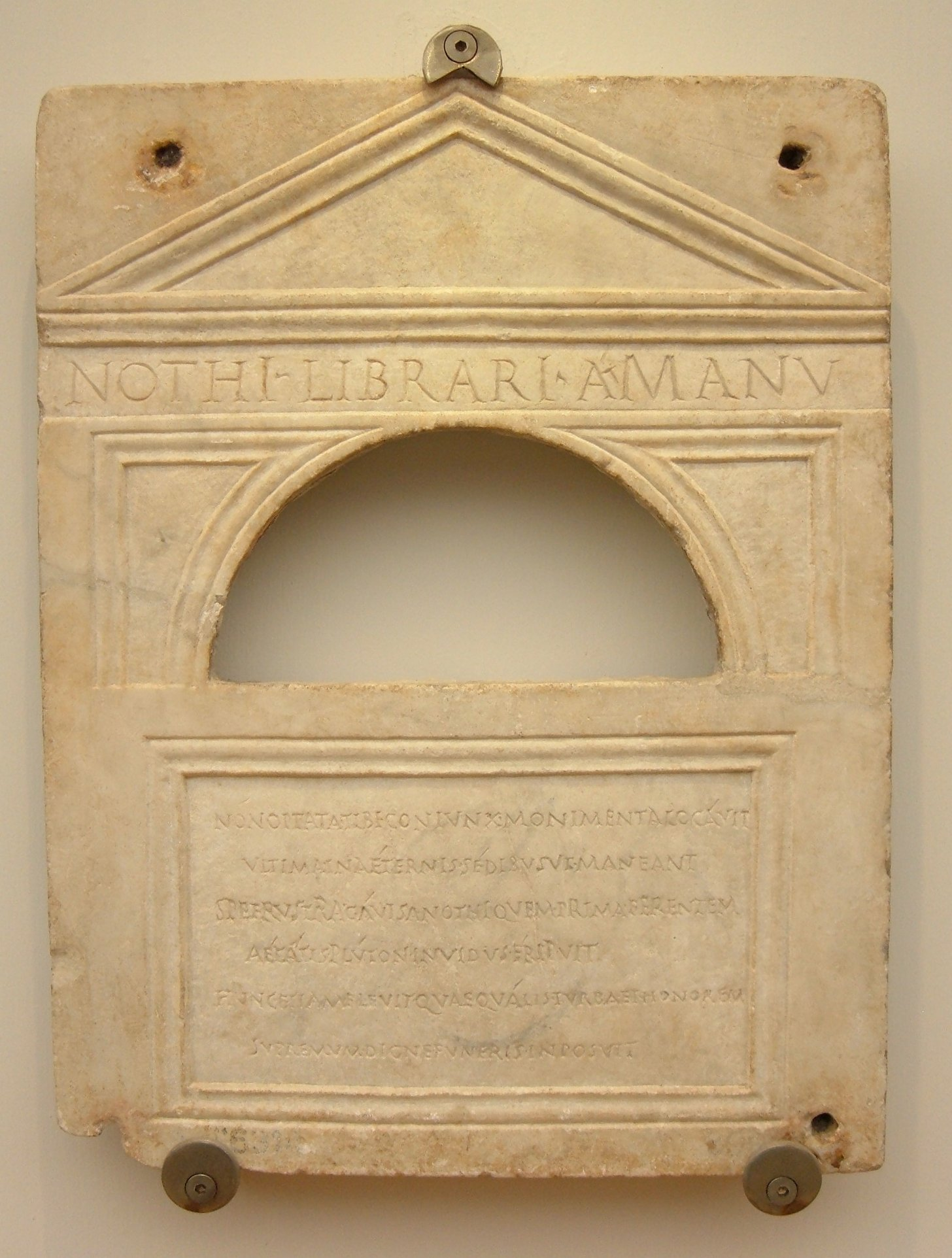 Gravestone for Nothi, a copiist (librarius a manu). Text reads "(For) Nothus the copiist his wife erected unwanted monuments. He was her idle hope, torn from the flower of his life by jealous Pluton. A great crowd weeps and buries him here with utmost dignity" (CIL VI 6314)